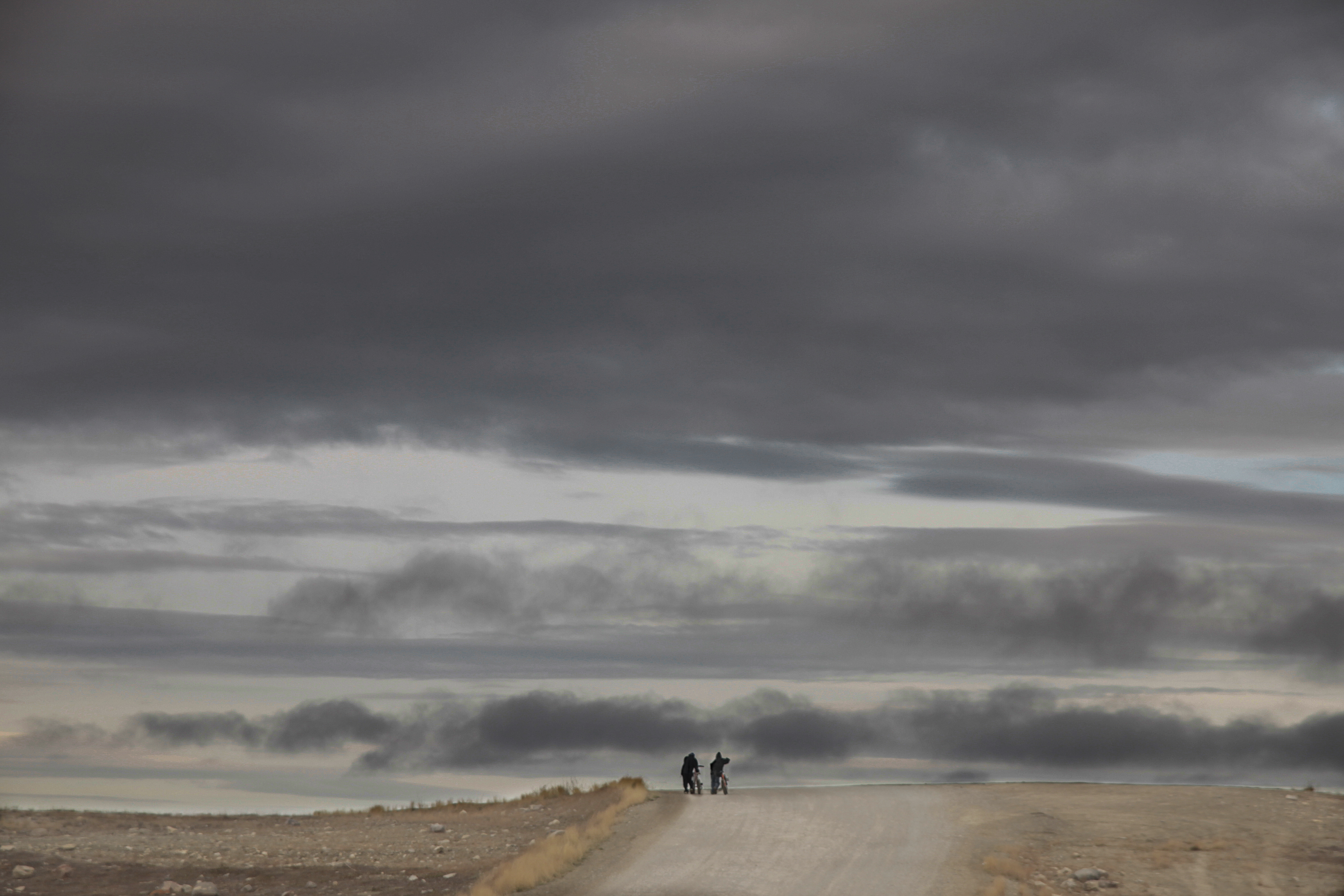 Cambridge Bay road on the way to Mount Pelly